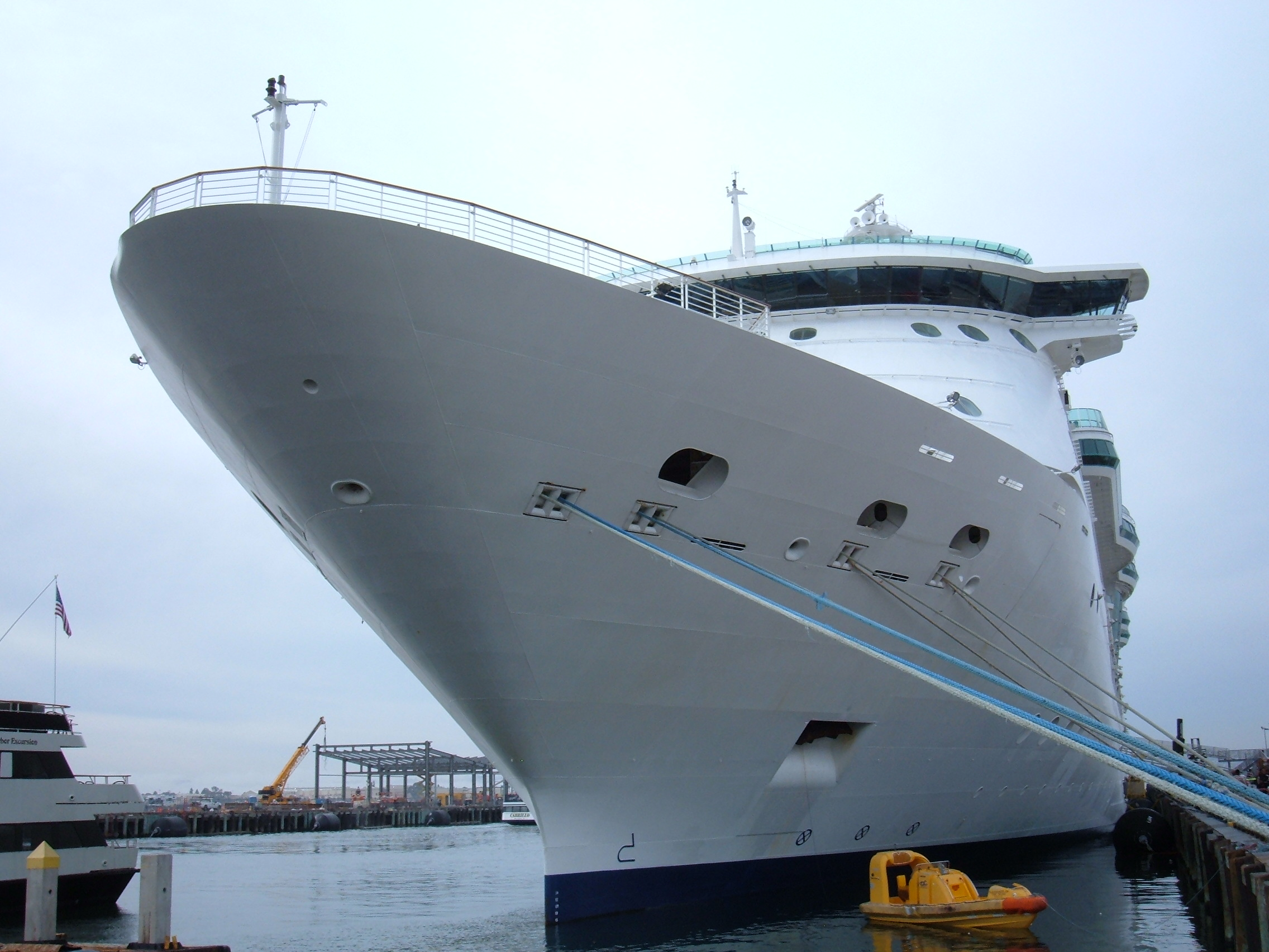 The Radiance of the Seas docked at the Cruise Terminal in San Diego, California.